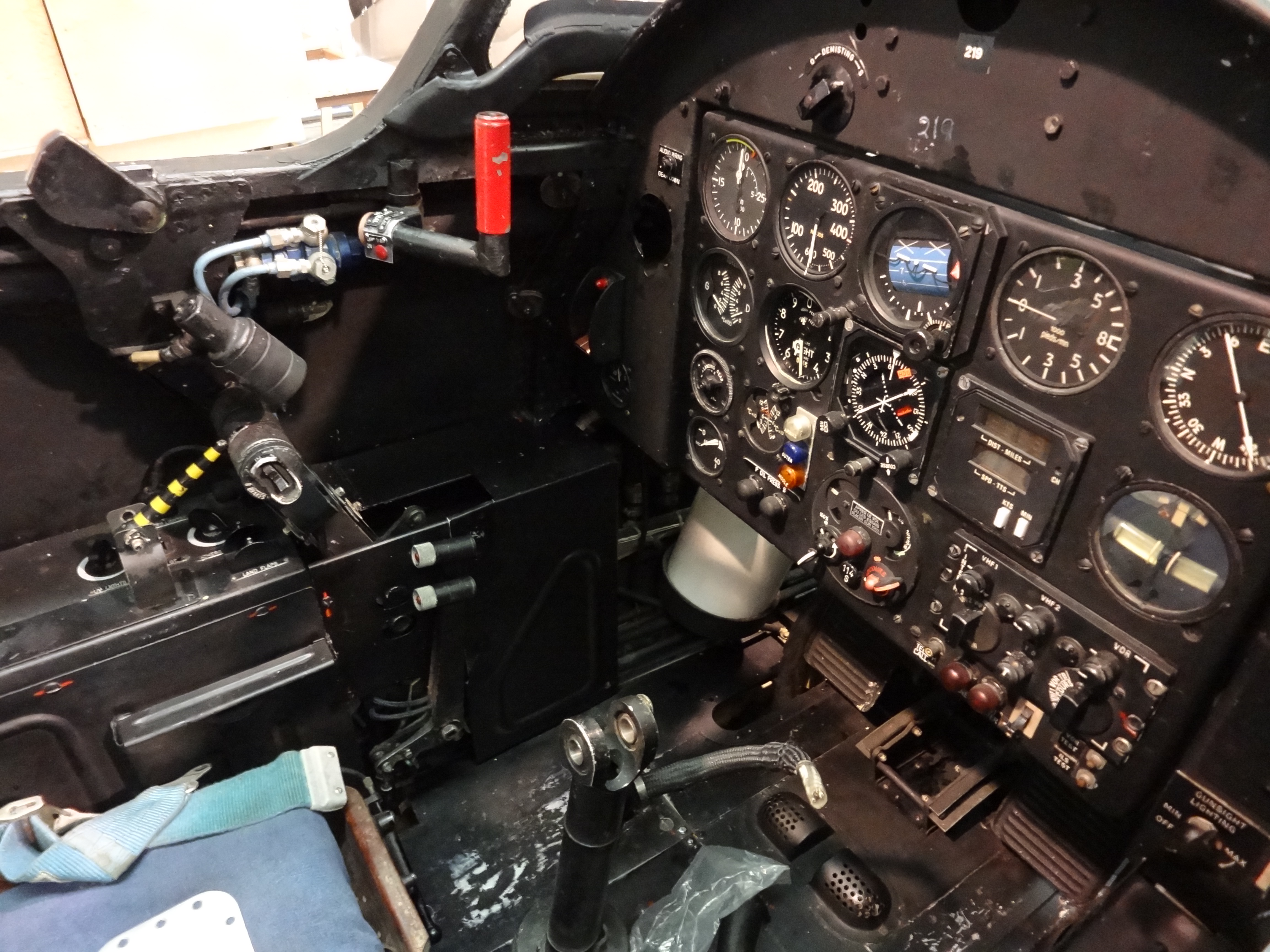 The rear cockpit of the Silver Swallows Fouga Magister, 1970s - 1990s